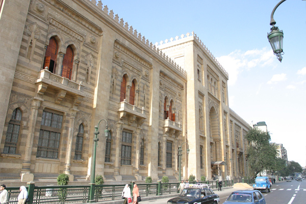 Outside the Egyptian National Library and Archives